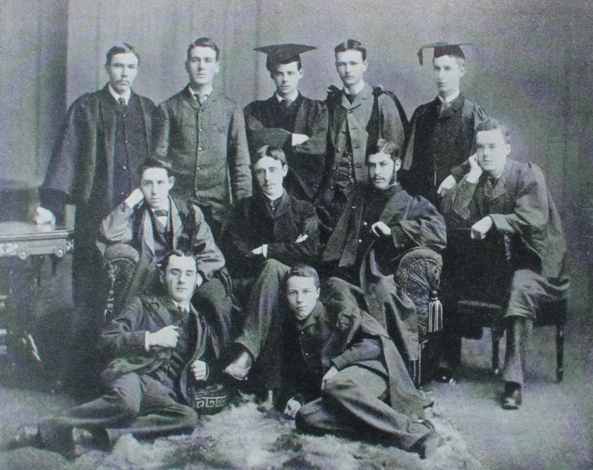 The graduating class of Trinity College, Toronto, 1882